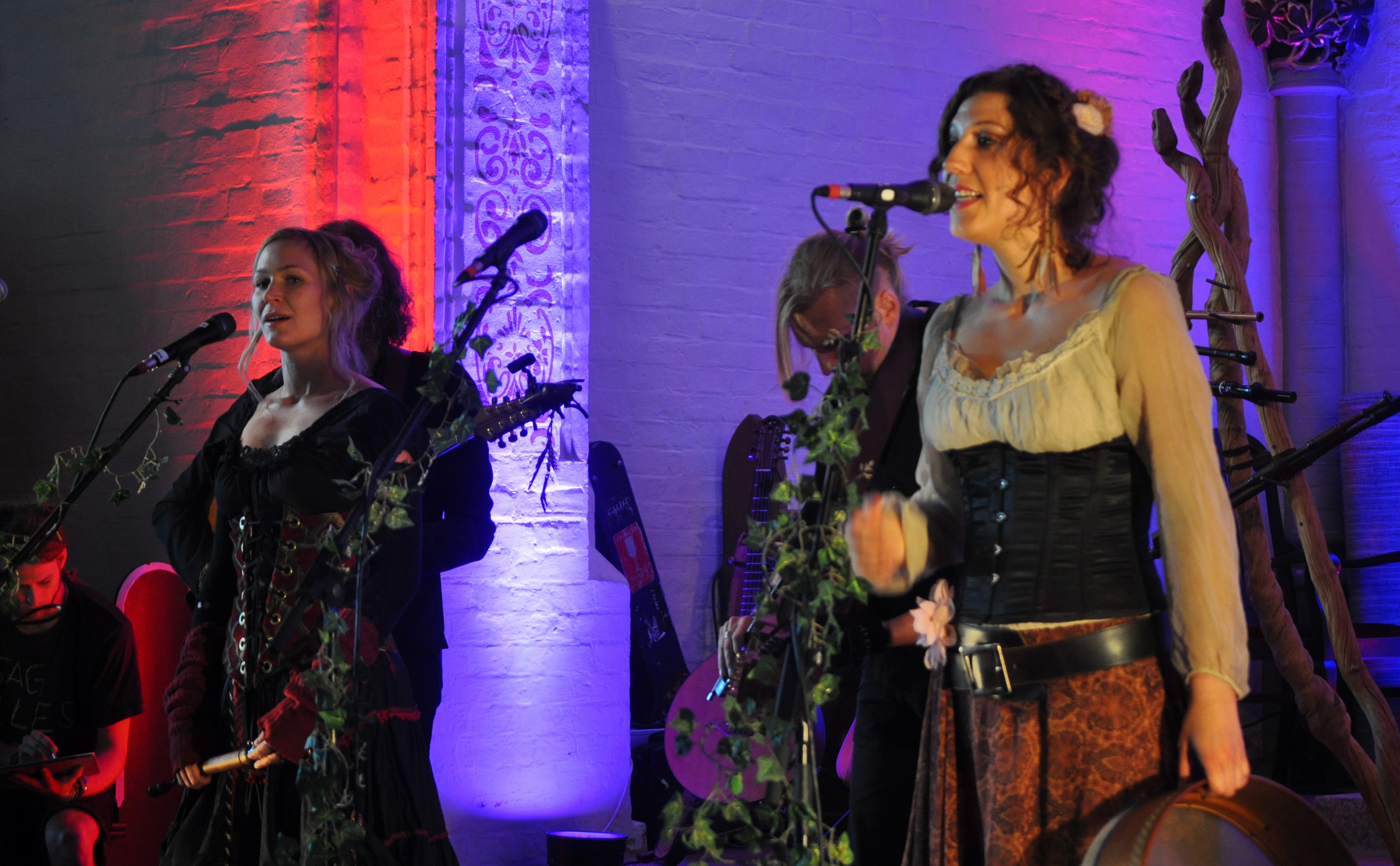 Pagan-Folk band Faun at Wacken Open Air 2013. Faun playing at Wacken village church